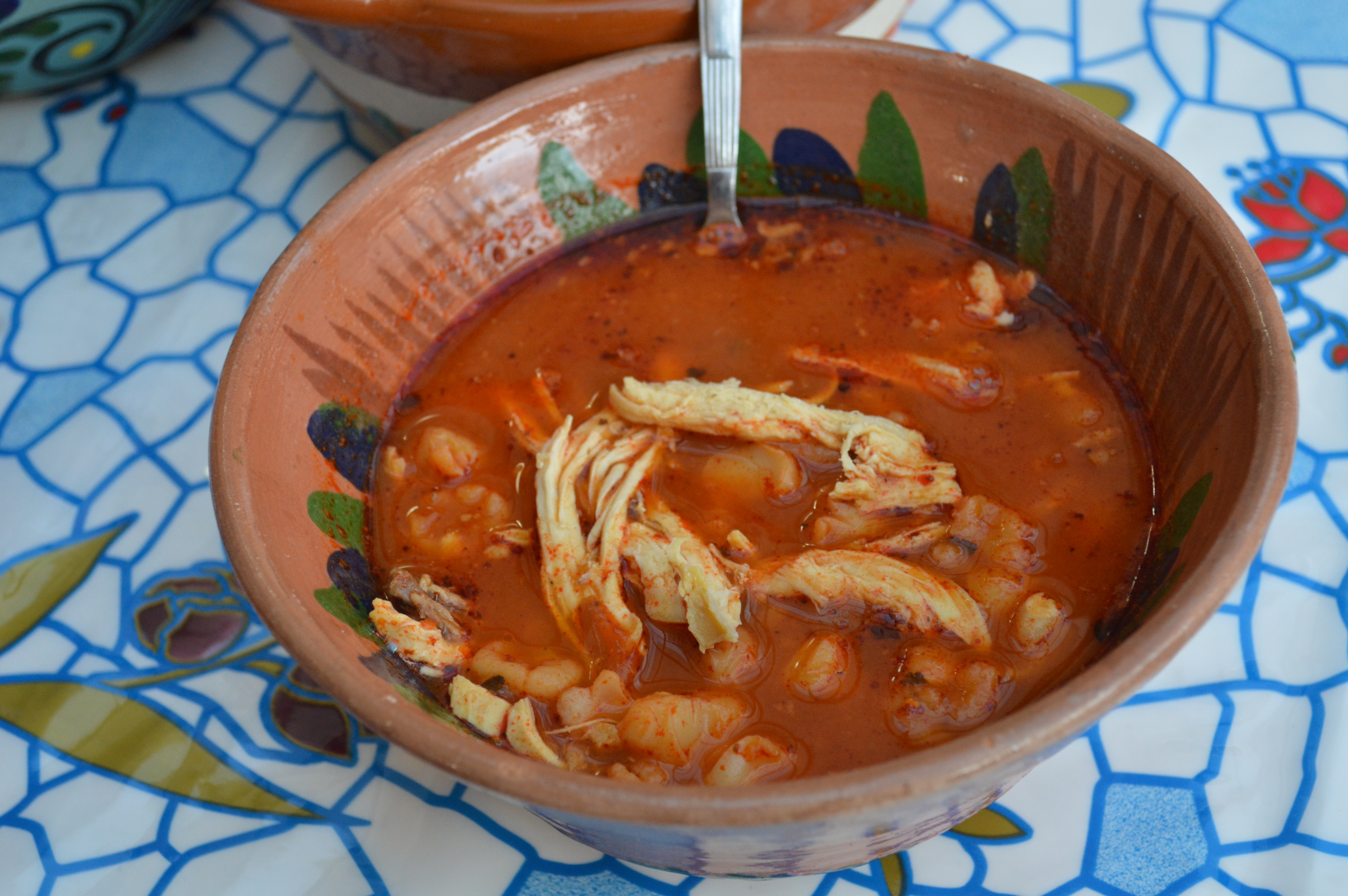 Red pozole served at the 2015 Encuentro Chilenero in Iztapalapa, Mexico City